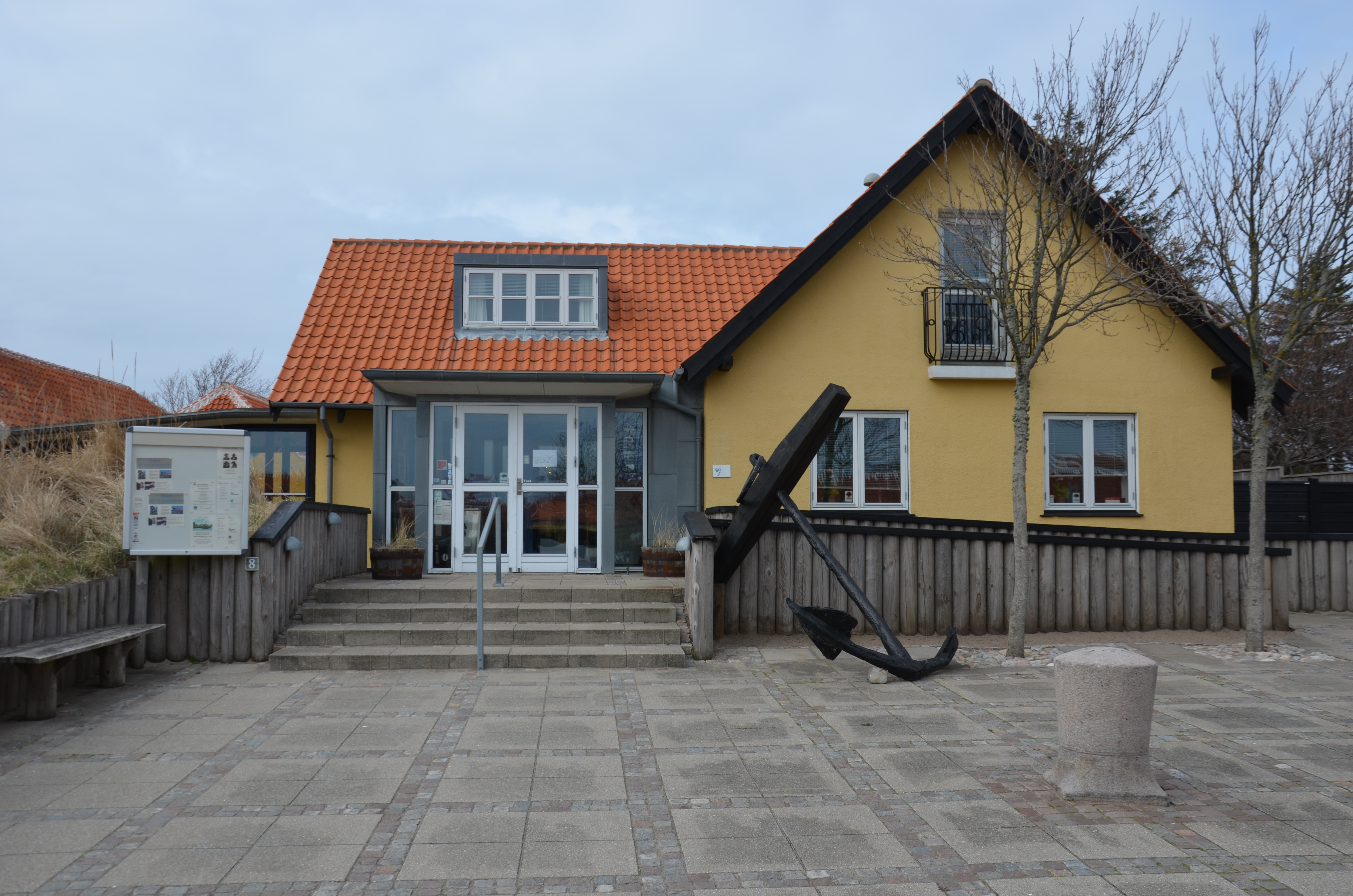 Skagen By- og Egnmuseum, entrén